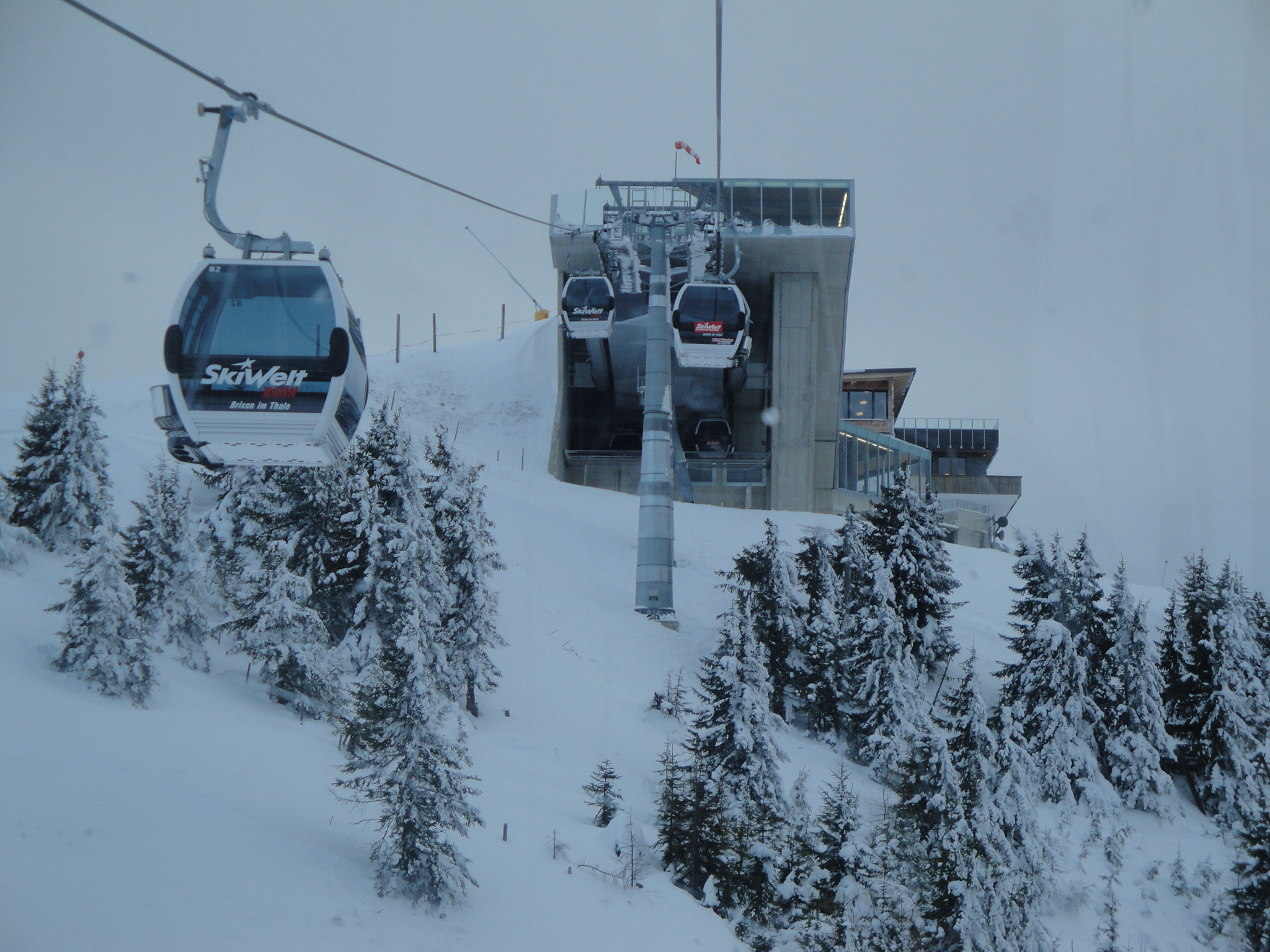 Skiweltbahn